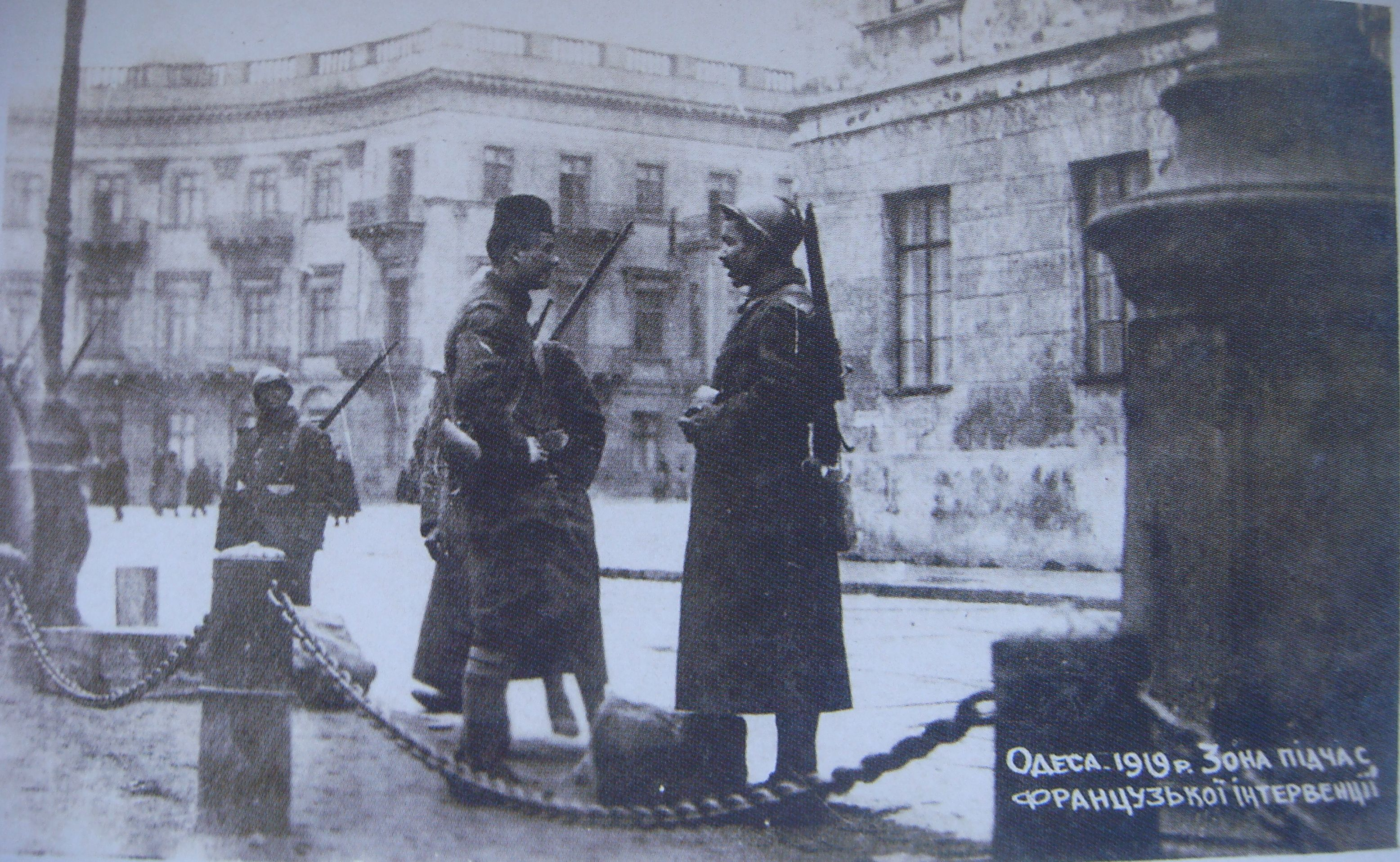 French military check-points at the boarder of French military zone in Odessa (Nikolayvsky boulvard) at winter 1918-1919